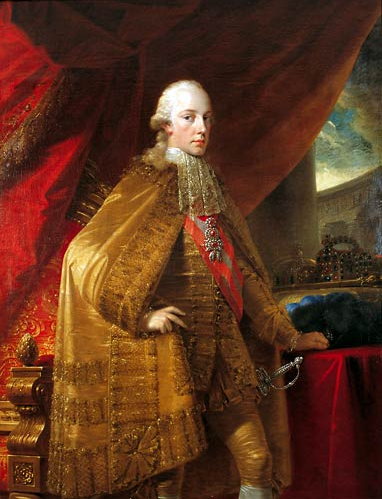 Francis II at age 25, 1792.